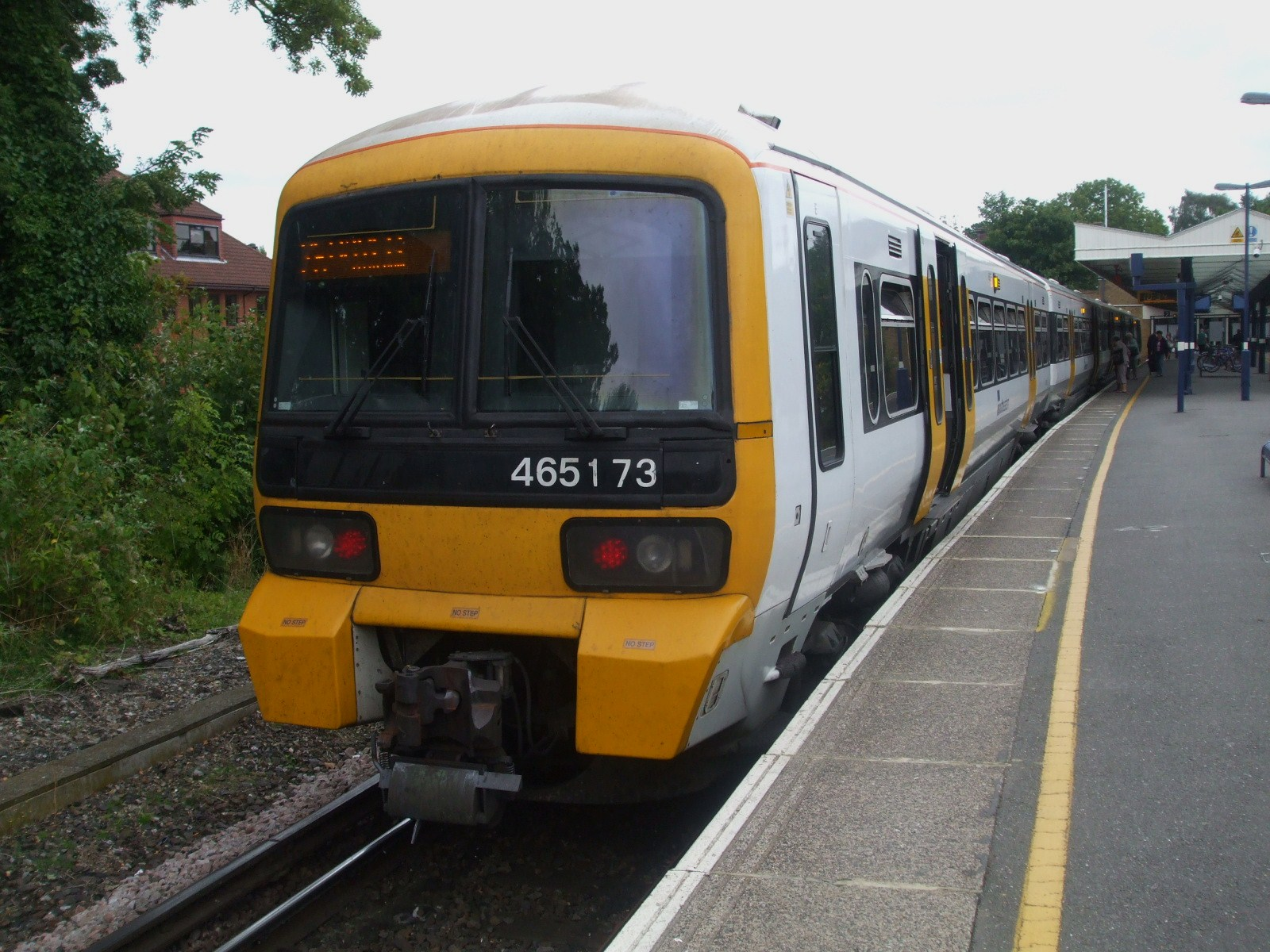 Class 465 unit 465173 arrives at Hayes station